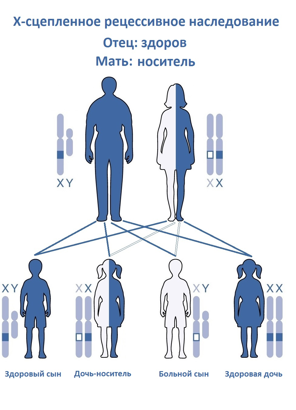 X-linked recessive inheritance from hemizygous carrier mother.